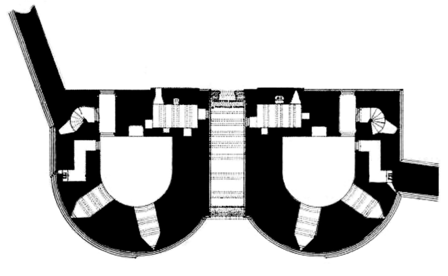 Plan of Dunstanburgh Castle gatehouse